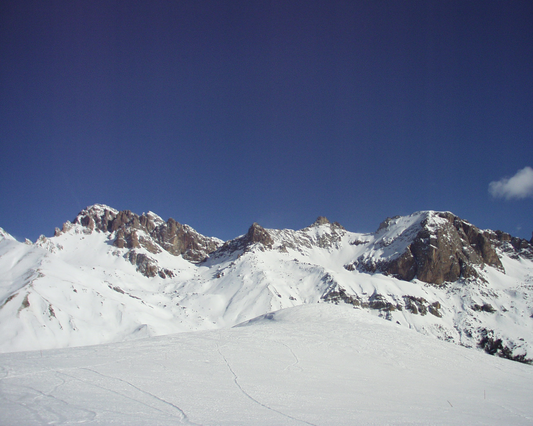 Mountains under snow and kitesurf around the Col du Lautaret, France.